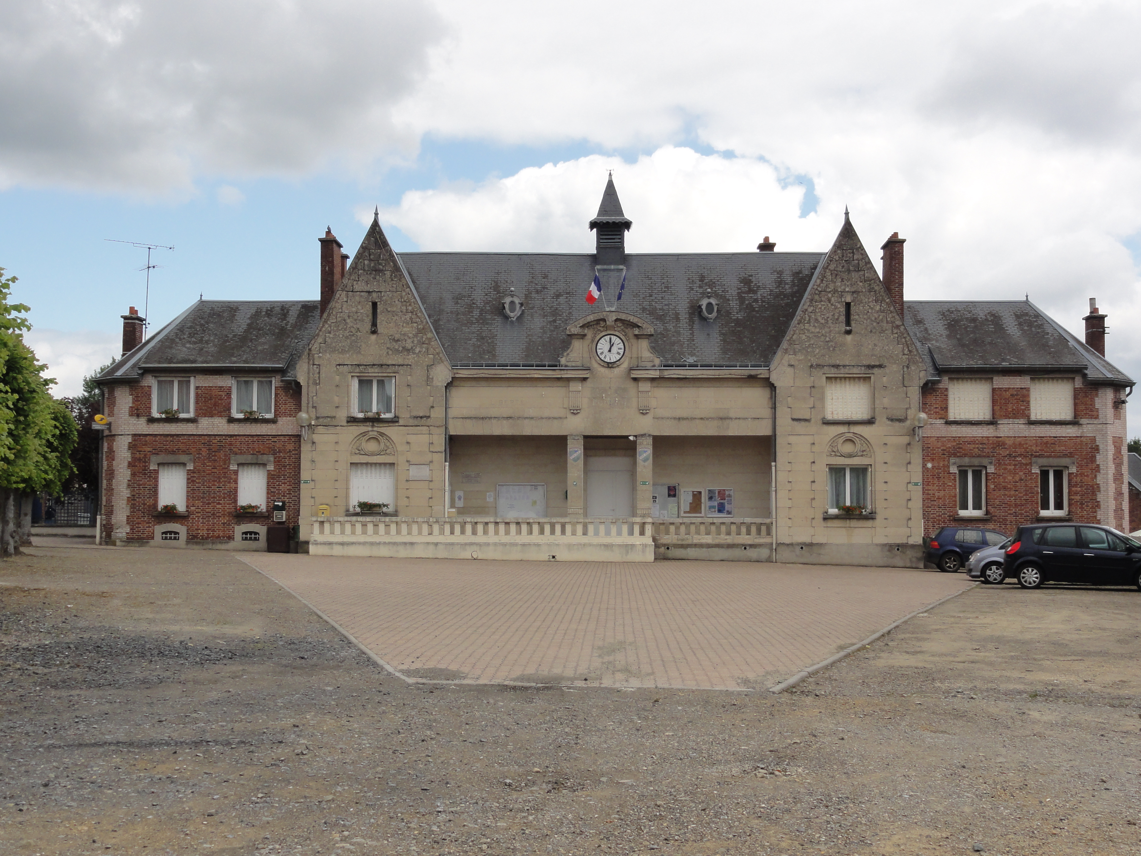 Barisis-aux-Bois (Aisne) mairie